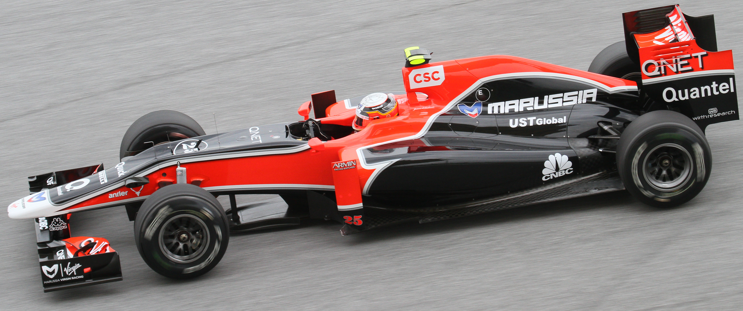 Formula One 2011 Rd.2 Malaysian GP: Jérôme d'Ambrosio (Virgin) during the first practice session on Friday.